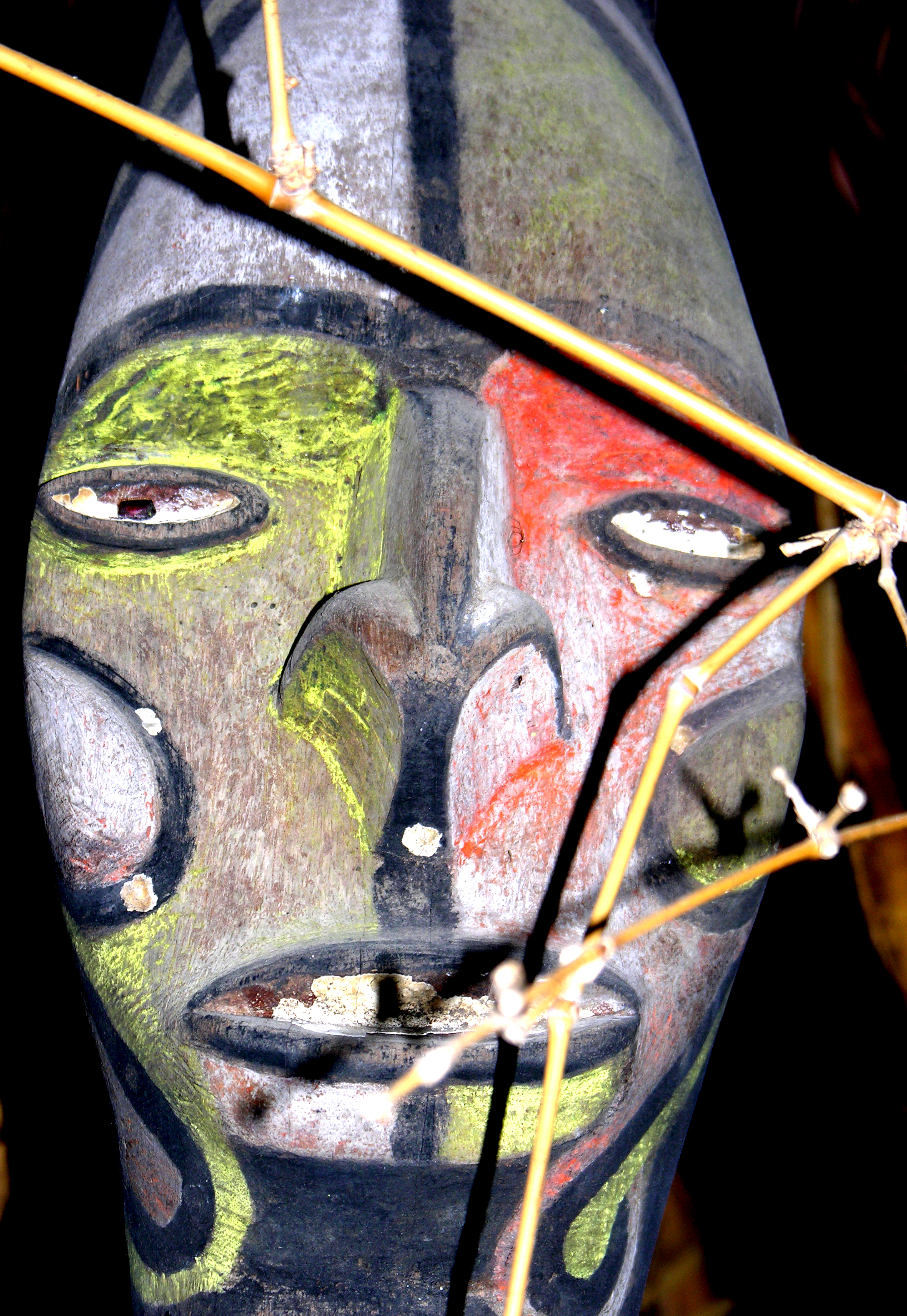 Vanuatu mask